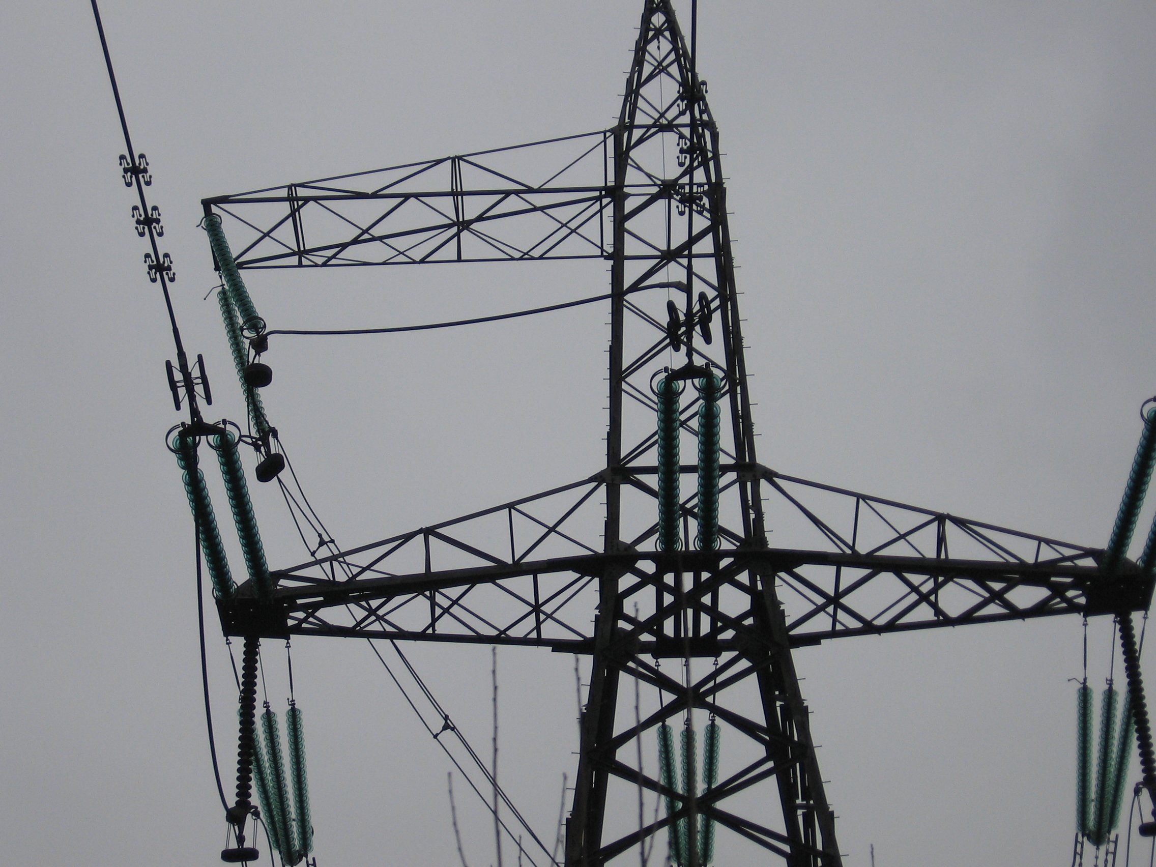 380 kV Bosphorous crossings - looking SE at Anadolu Kavağı tension tower